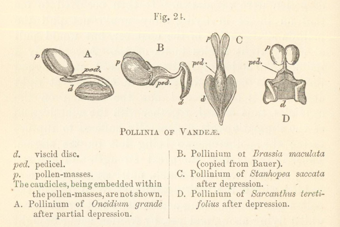 Figure 24 from the 1877 edition of Charles Darwin's Fertilisation of Orchids. Scanned from a copy of the work at the University of Massachusetts Amherst.